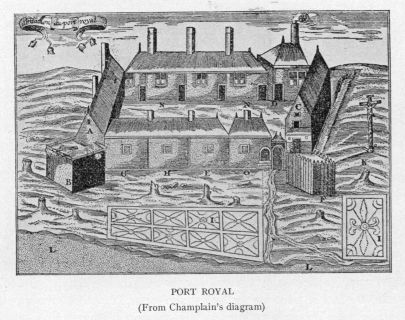 Port Royal, Nova Scotia - circa 1612 - From Samuel de Champlain's diagram.